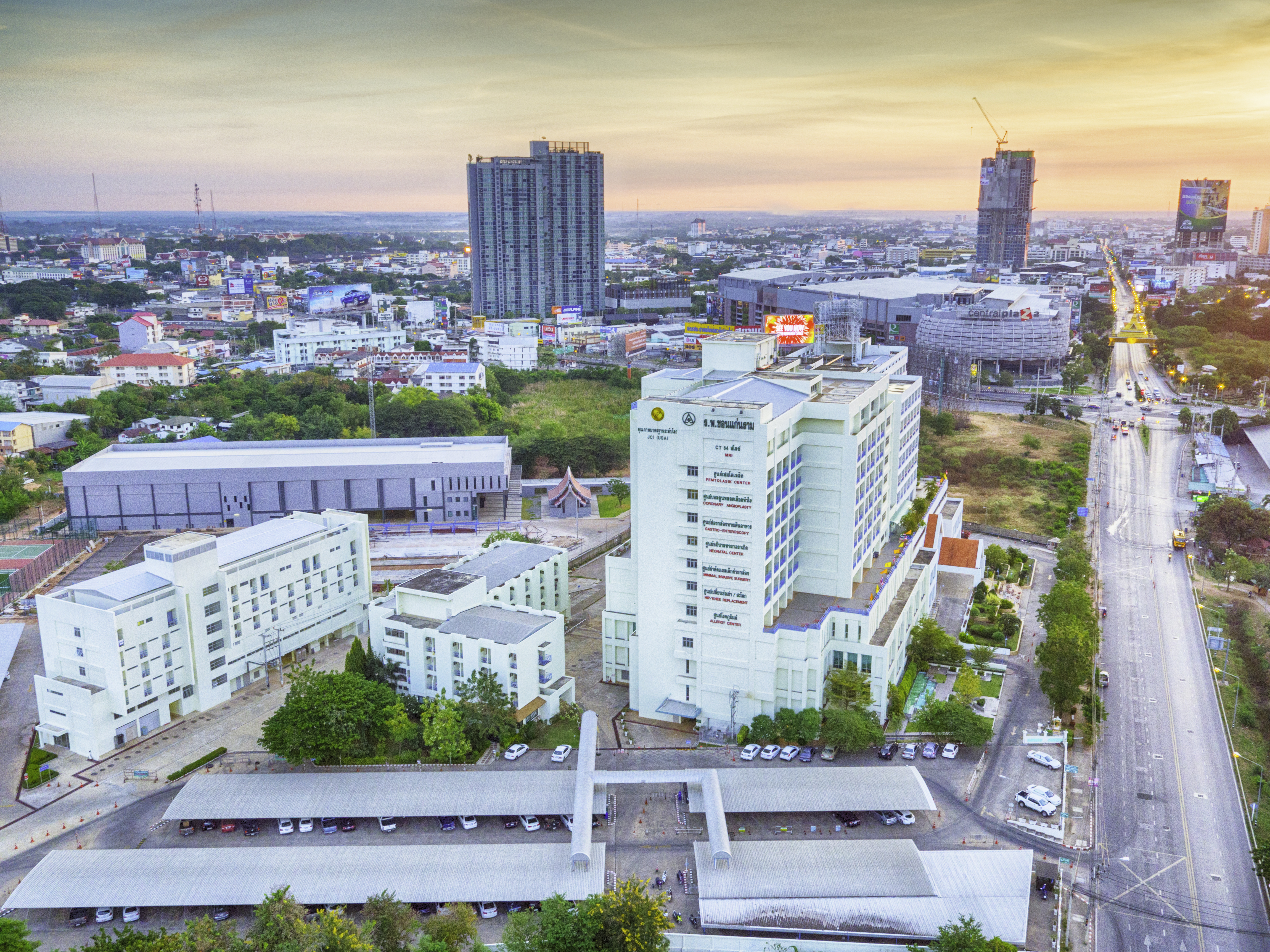 KhonkaenRam Hospital